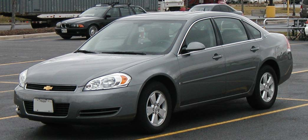 2006-2007 Chevrolet Impala LS photographed in USA.